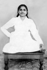 Sitting Dadi Prakash Mani_about 1945